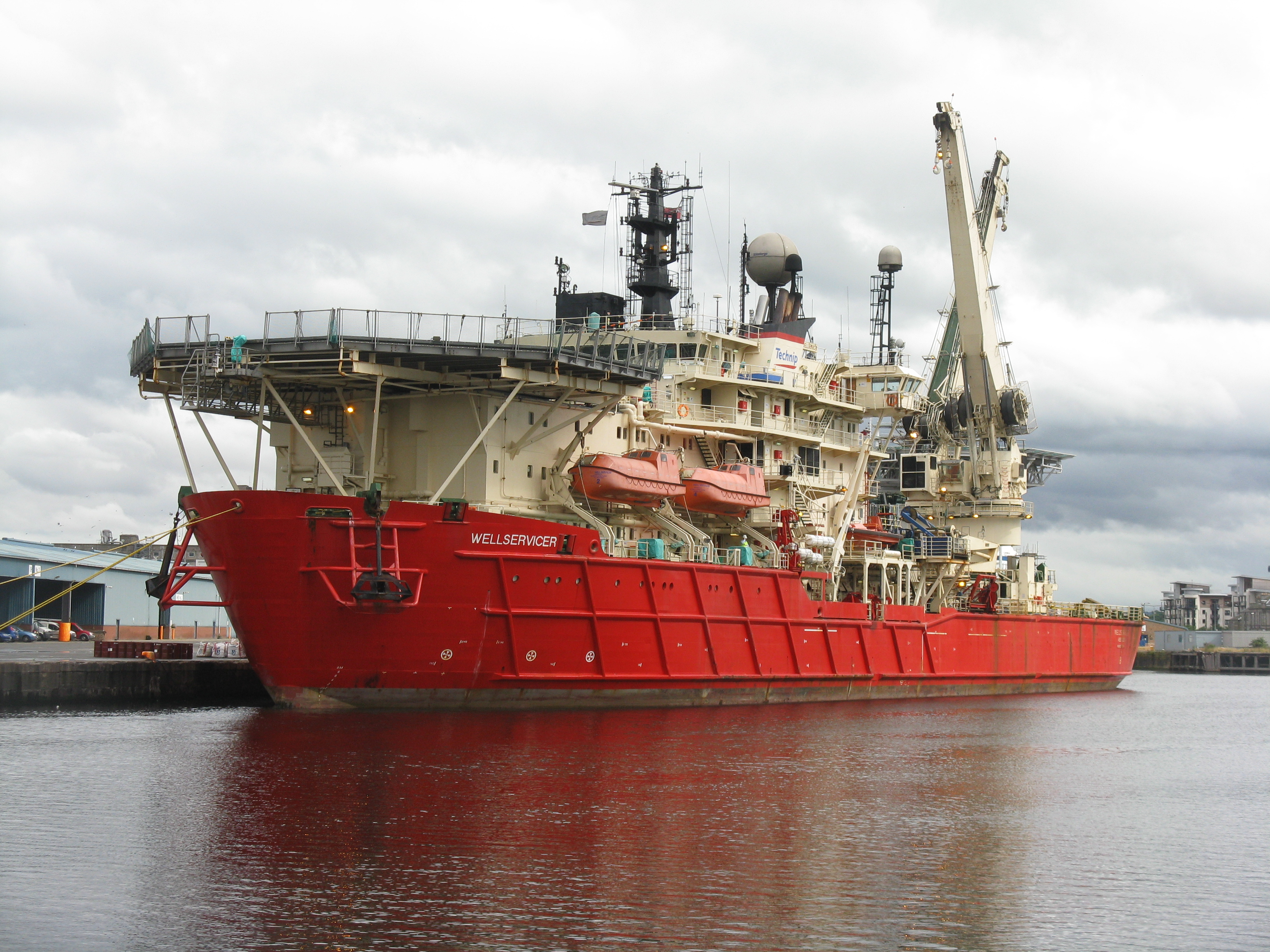 A substantial and versatile multi-purpose vessel for doing what it says on the - servicing oilwells, with heavy-lift capability. Built in 1989 by North East Ship Builders, Sunderland, it has a displacement of 9158t and is 111.4m long. It is one of the Technip fleet of subsea, pipelaying and other oil-related support vessels.